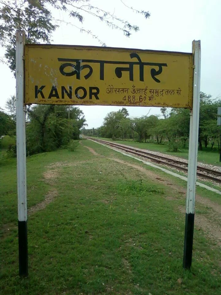 Kanore Raiwlay Station